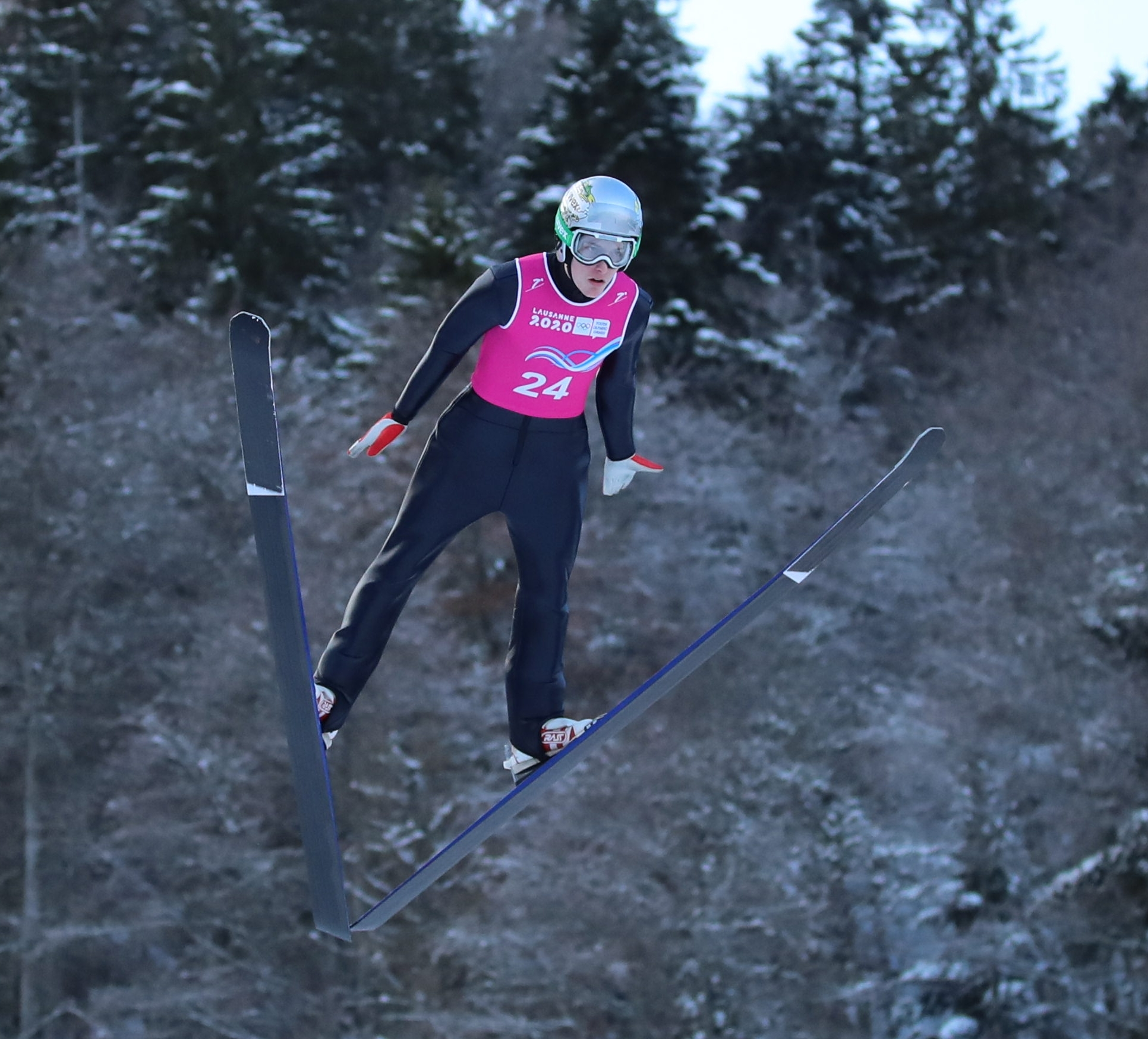 1st Round of Ski jumping – Men's Individual at the 2020 Winter Youth Olympics in Lausanne on 19 January 2020.